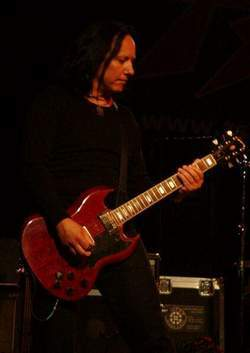 The Polish guitarist and composer Stefan Machel (b. 1960), co-founder of the hard rock band TSA.